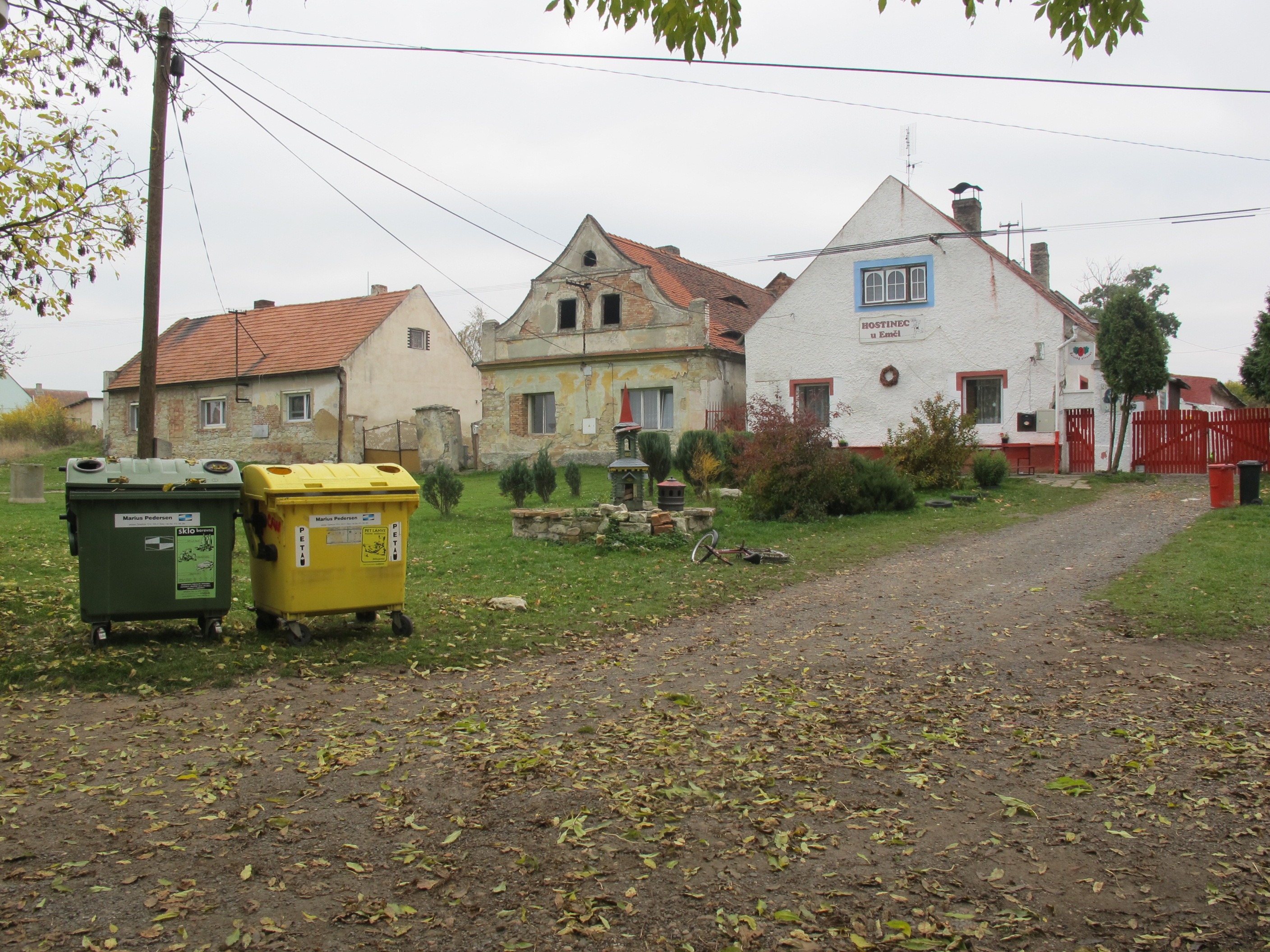 Village square in Sýrovice